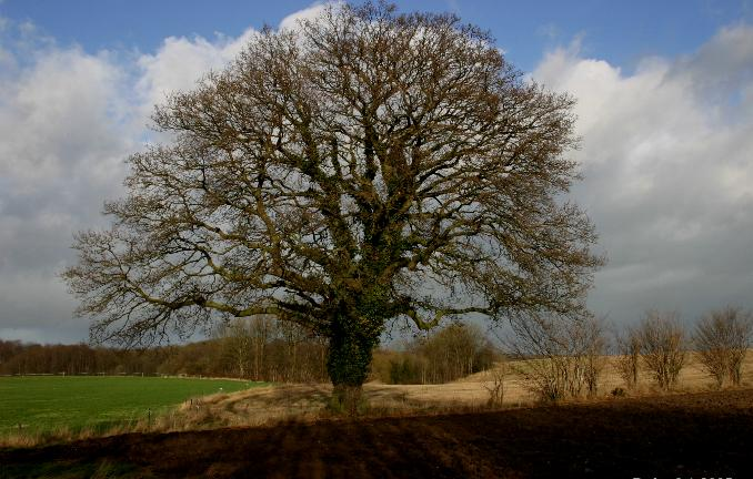 Species Quercus robur Family Fagaceae Habitat